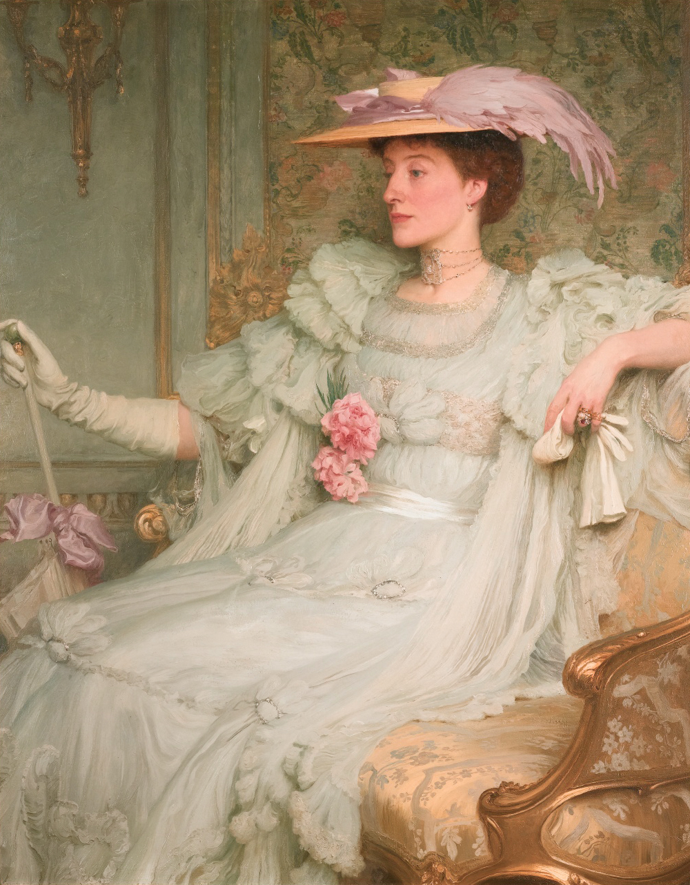 Lady Hillingdon oil on canvas 127 x 102 cm signed b.r.: FRANK DICKSEE / 1905